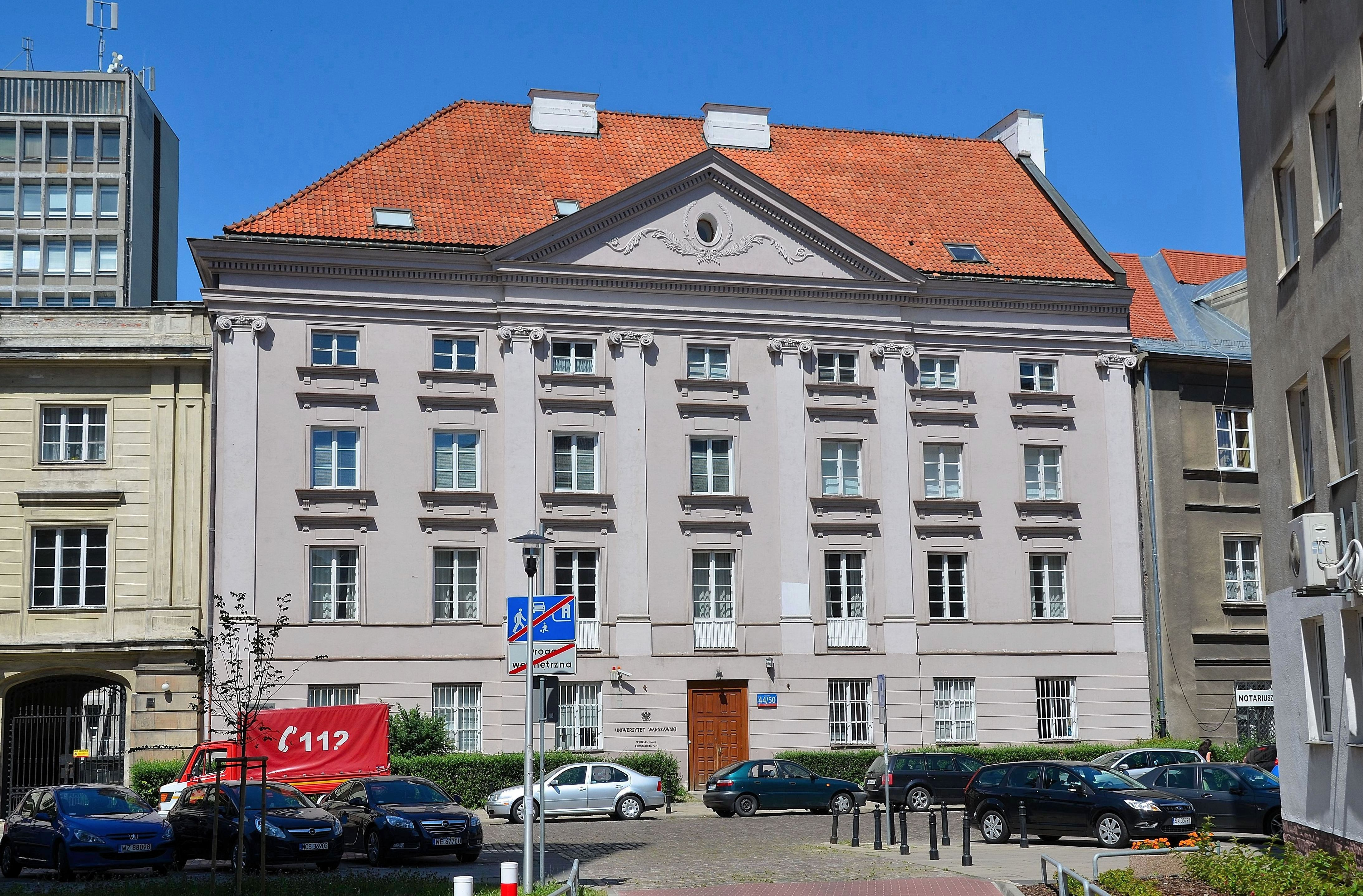 Seat of the Faculty of Economics of the Warsaw University at 44/50 Długa Street in Warsaw